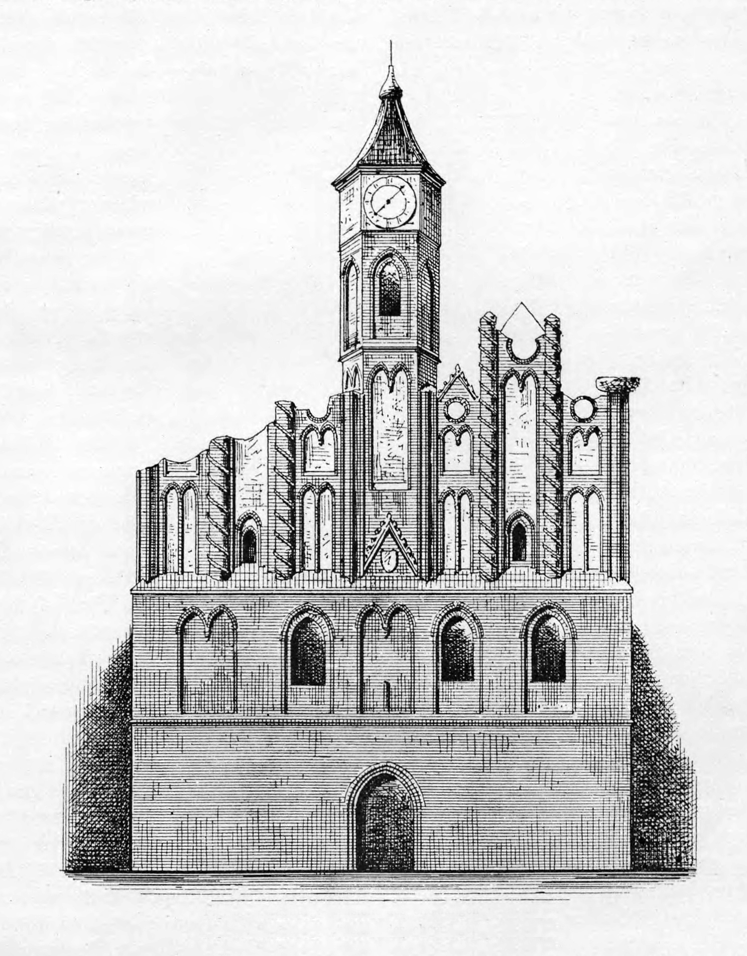 The Brodnica Town Hall, ca. 1891.